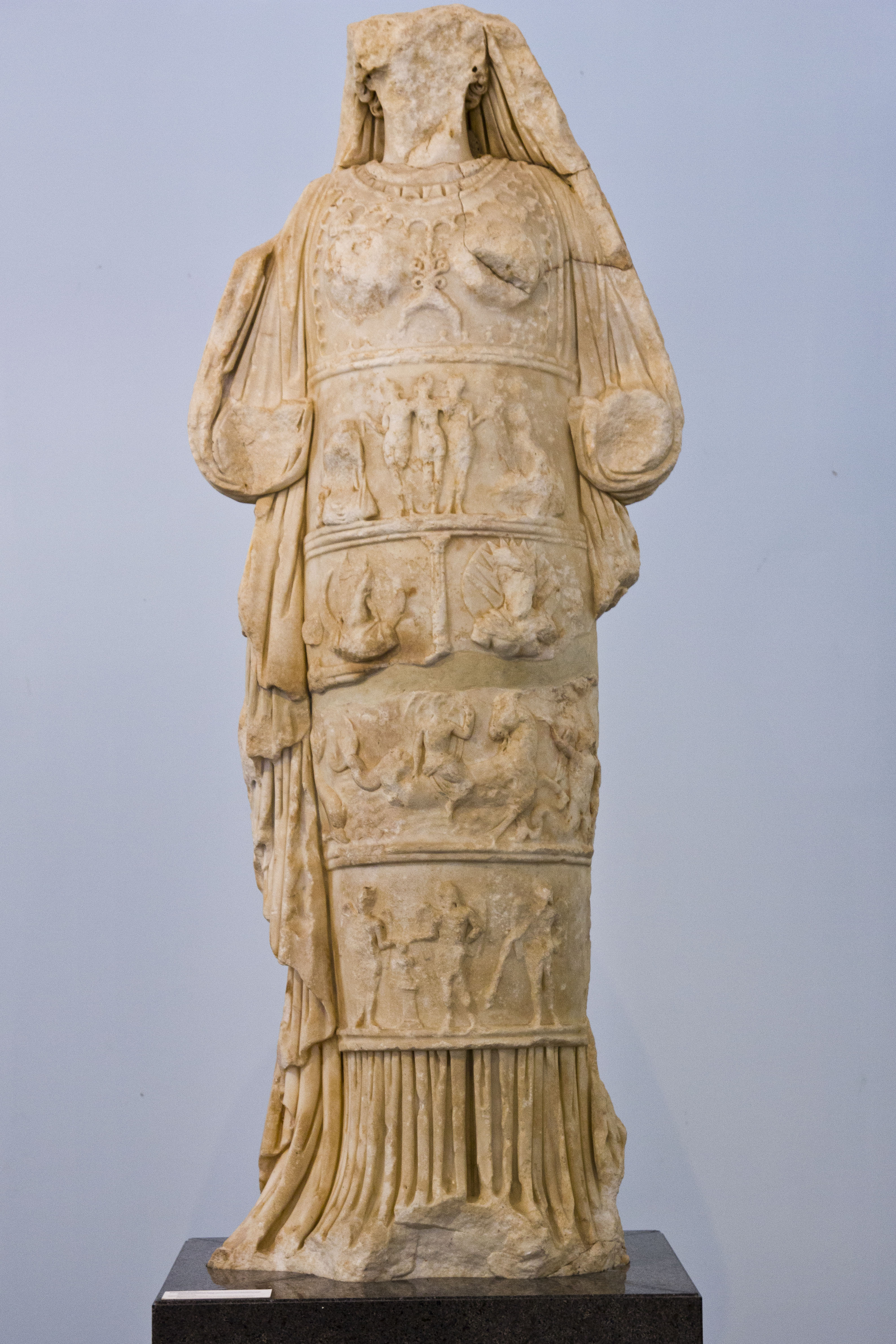 This cult image Aphrodite of Aphrodisias was once housed in the Temple of Aphrodite. She was a distinctive local goddess of fertility who became, by interpretatio graeca, identified with the Greek Aphrodite.